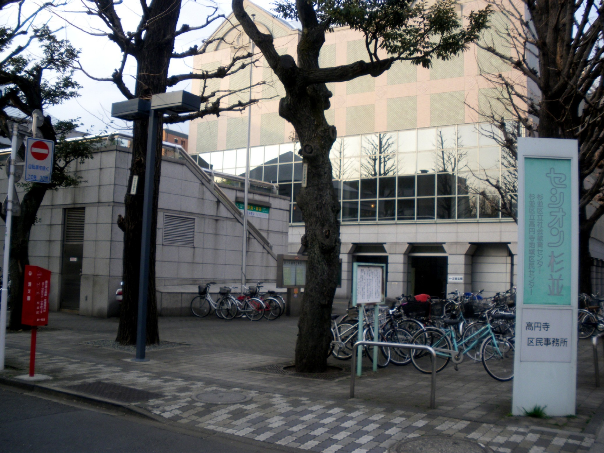 Secion Suginami(Umesato,Suginami,Tokyo)